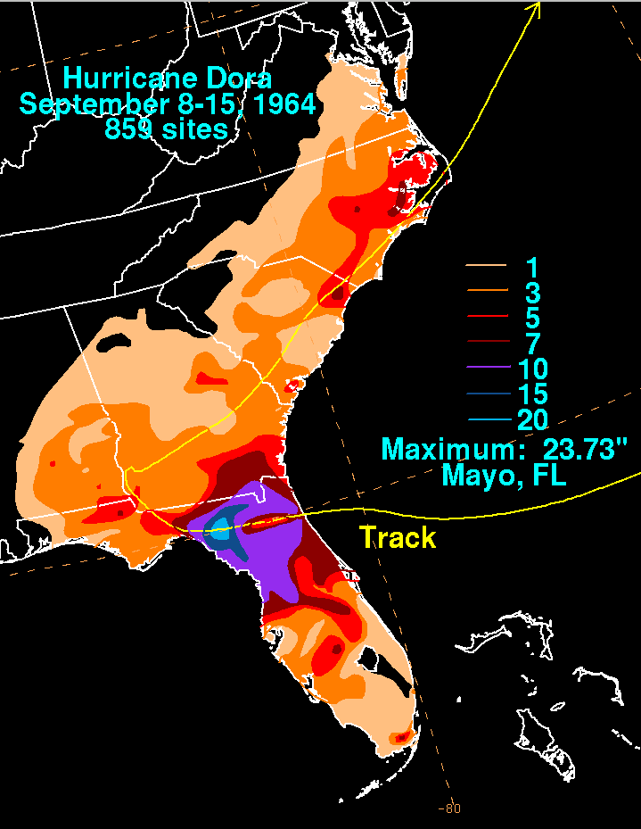 Storm total rainfall map of Hurricane Dora during September 1964.